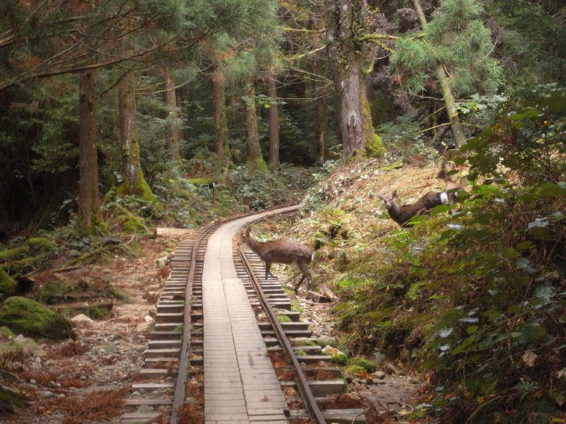 A track of the Anbō Forest Railway in Yakushima, Japan.